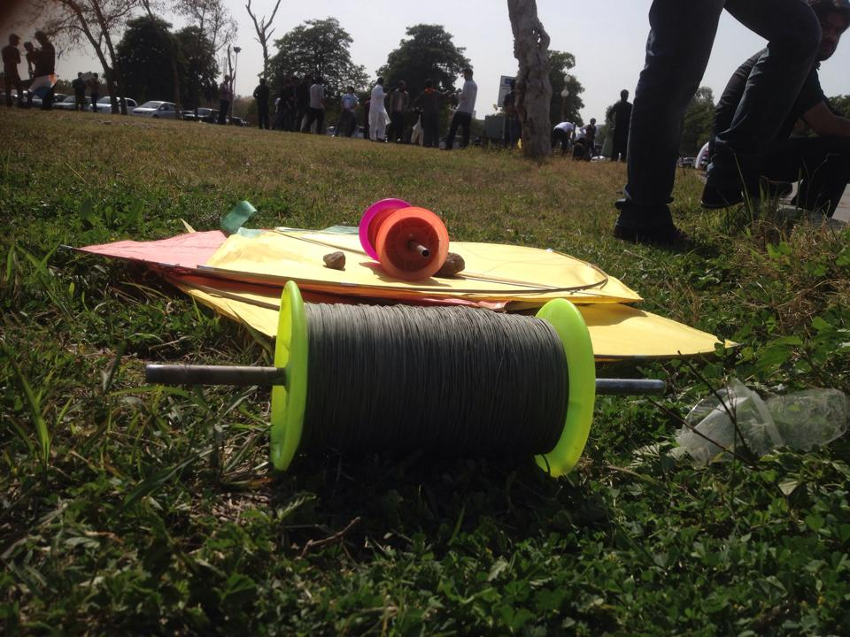 basant fastival